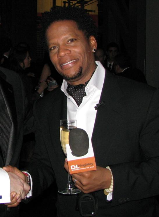 D. L. Hughley, an American actor and stand-up comedian.